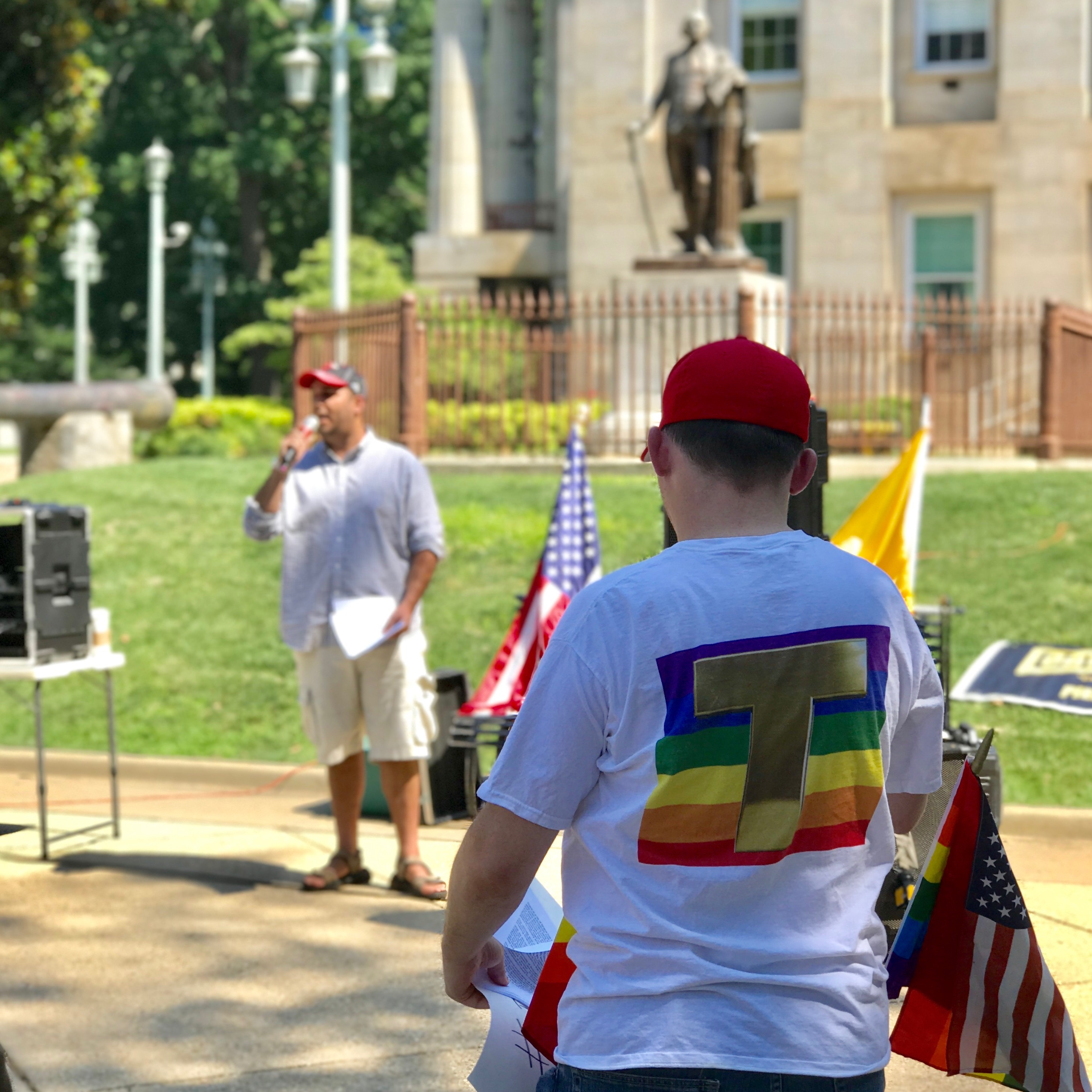 This was the "March Against Sharia" protest and counter-protest held in Raleigh on June 10, 2017.